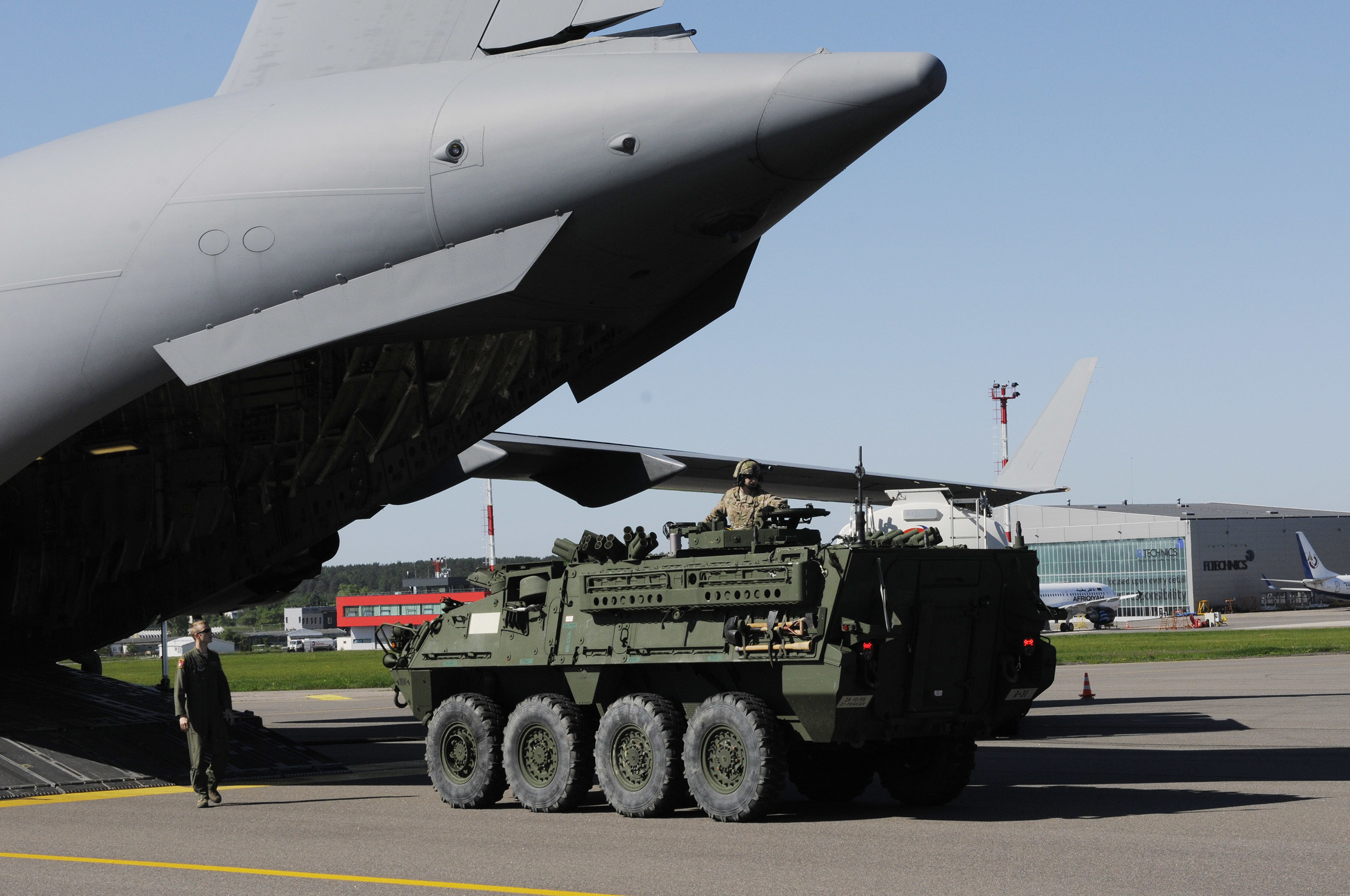 A Stryker vehicle disembarks from a C-17 cargo plane at Vilnius International Airport, Saturday, June 6, 2015. A platoon of soldiers from the 56th Stryker Brigade Combat Team, 28th Infantry Division, will spend the next two weeks training with a Lithuanian infantry company in the Saber Strike 2015 exercise. Saber Strike is a long-standing U.S. Army Europe-led cooperative training exercise. This year’s exercise objectives facilitate cooperation amongst the U.S., Estonia, Latvia, Lithuania, and Poland to improve joint operational capability in a range of missions as well as preparing the participating nations and units to support multinational contingency operations. There are more than 6,000 participants from 13 different nations. (Photo by Staff Sgt. Doug Roles)